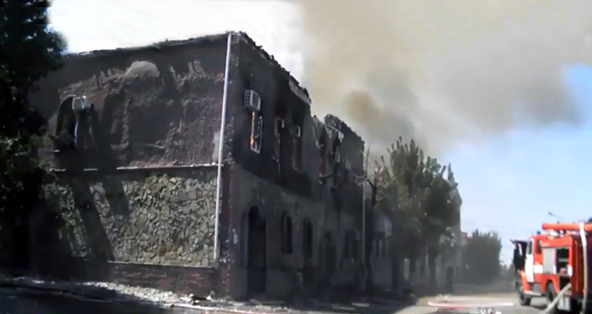 Burned building in Lugansk, July 21, 2014.